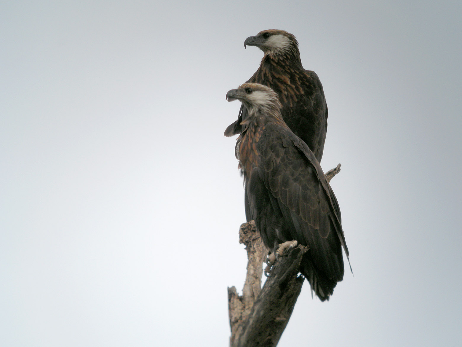 Madagascar Fish Eagle, Lake Ravelobe, Ankarafantsika National Park, Madagascar Swarowski 80 HD 30 X, Coolpix P5100 (Adapter DCB) The Madagascar Fish Eagle (Haliaeetus vociferoides) is classified as "Critically Endangered". Its world population is estimated at around 120 breeding pairs (R. Watson in litt. 2010). The annual breeding success seems to be very low, but individual life expectancy is high. Ankarafantsika National Park is a good place to see Madagascar Fish Eagles in the wild. There are several watchtowers around Lake Ravelobe and eagles can also be seen from the roadside. This picture of a pair was taken in the evening, in bad light conditions.